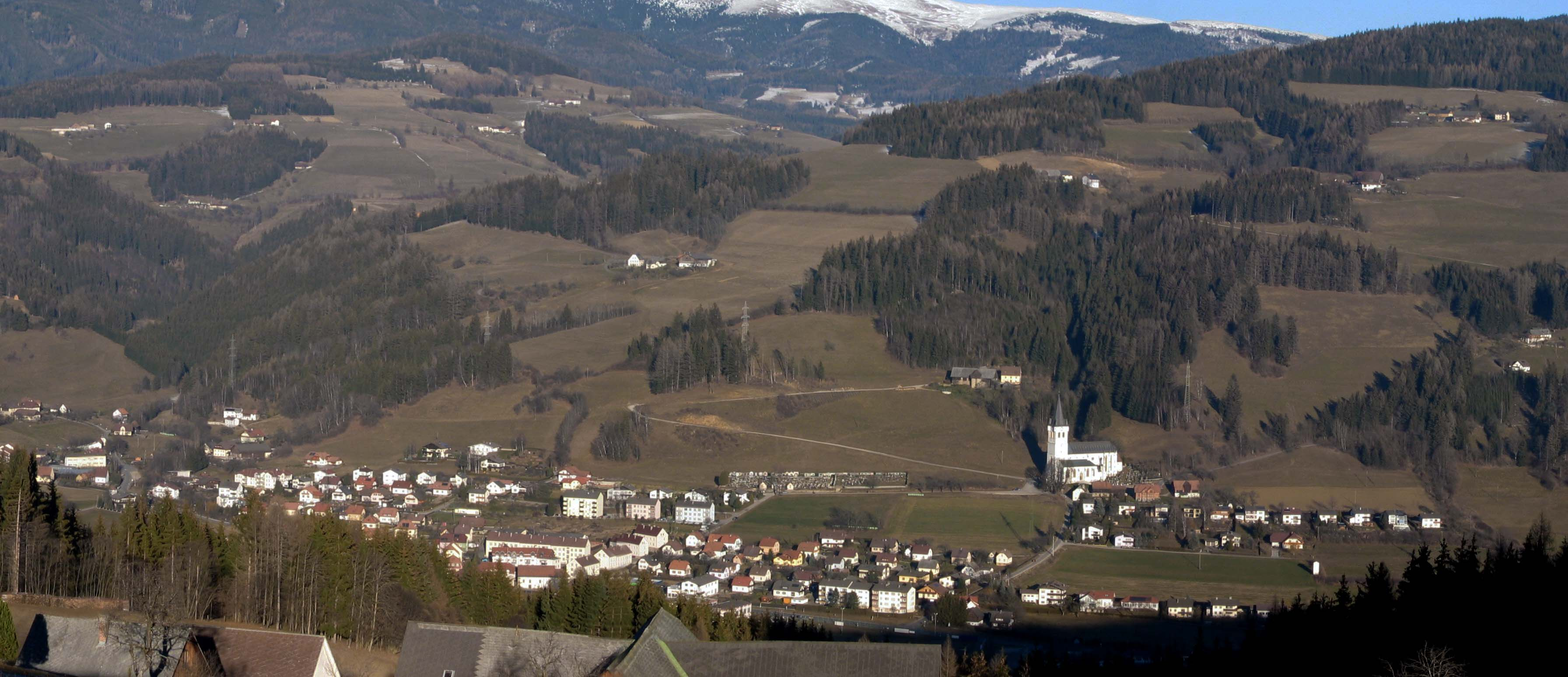 Panorama von Bad St. Leonhard / Bad St. Leonhard panorama view